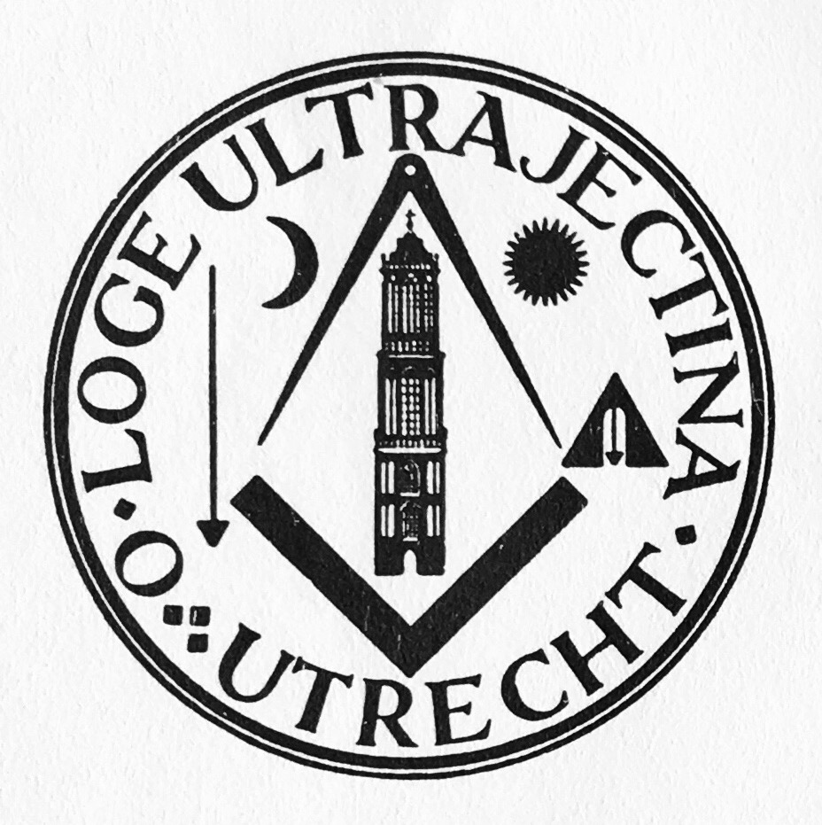 Seal of a Dutch Masonic Lodge